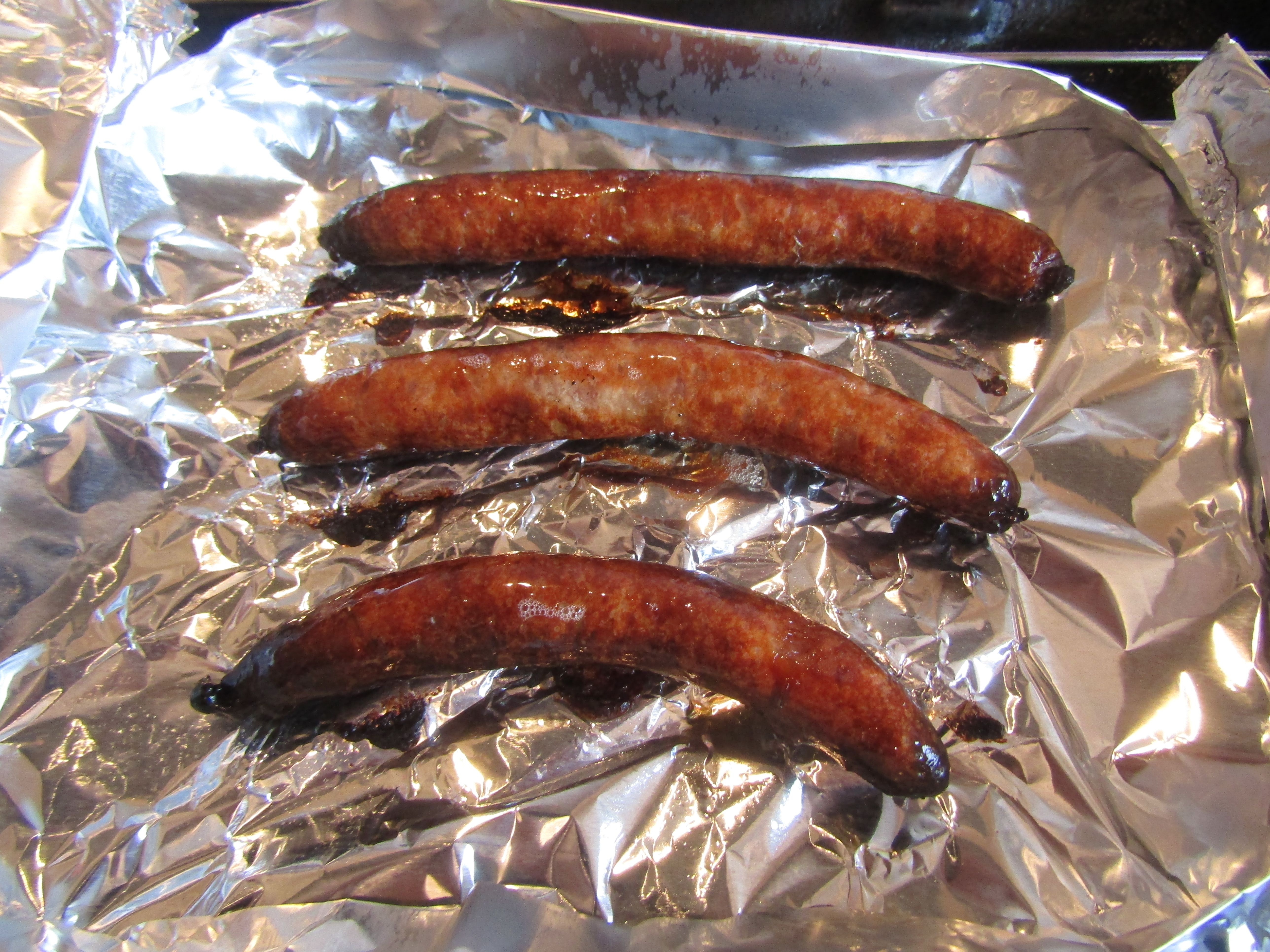 Three cooked chipolata pork sausages prepared in a kitchen in the town of Sheringham, Norfolk, England.